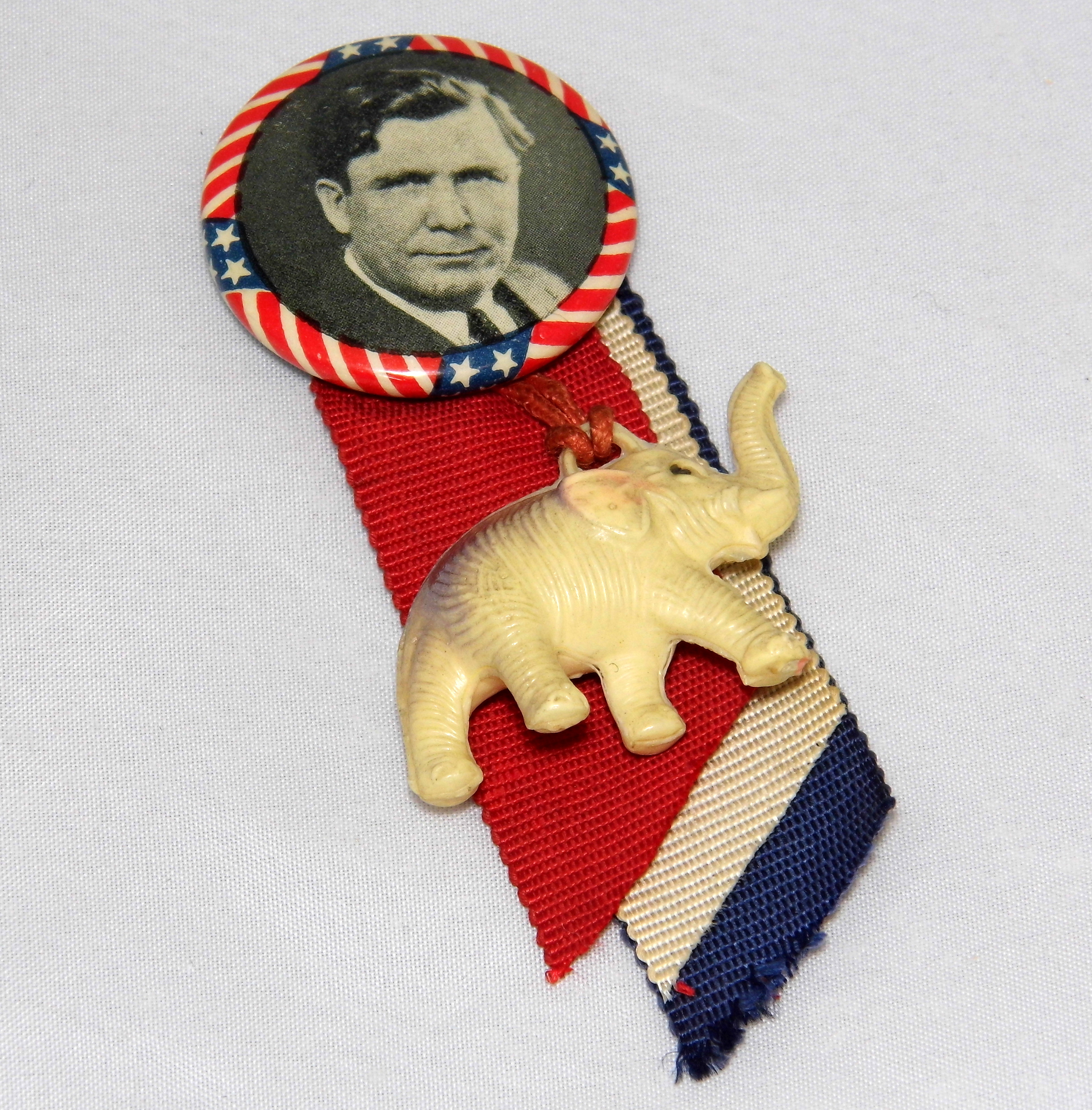 Vintage Wendell L. Willkie Campaign Button, Republican Candidate For The 1940 United States Presidential Race